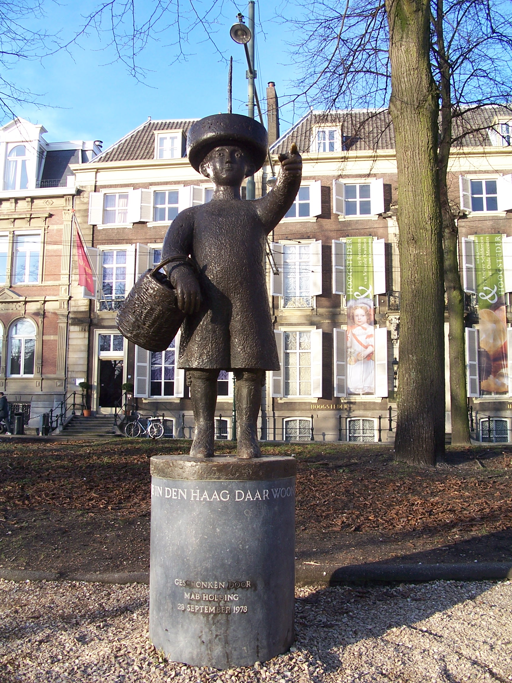 Foto of statue of Jantje, made by Ivo Coljé in 1978